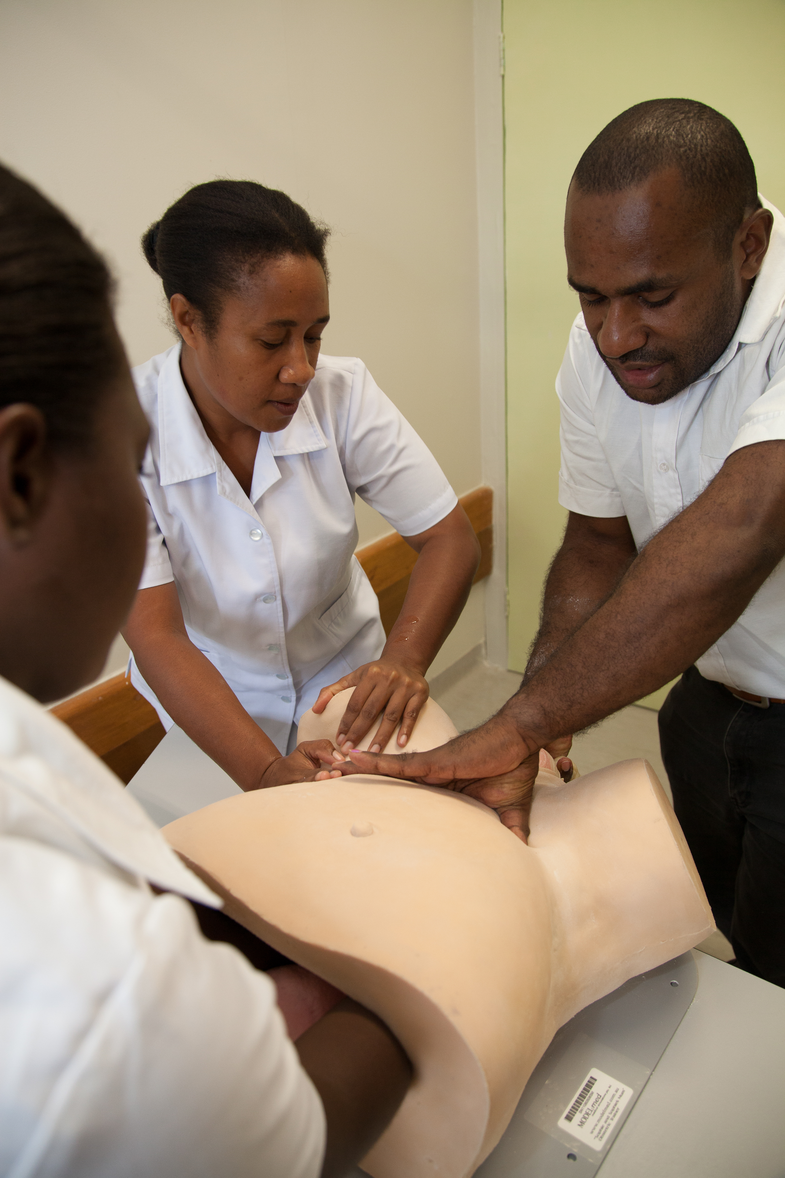 Midwives training at Pacific Adventist University PAU, outskirts of Port Moresby, PNG. Photo taken by Ness Kerton for AusAID. (13/2529)